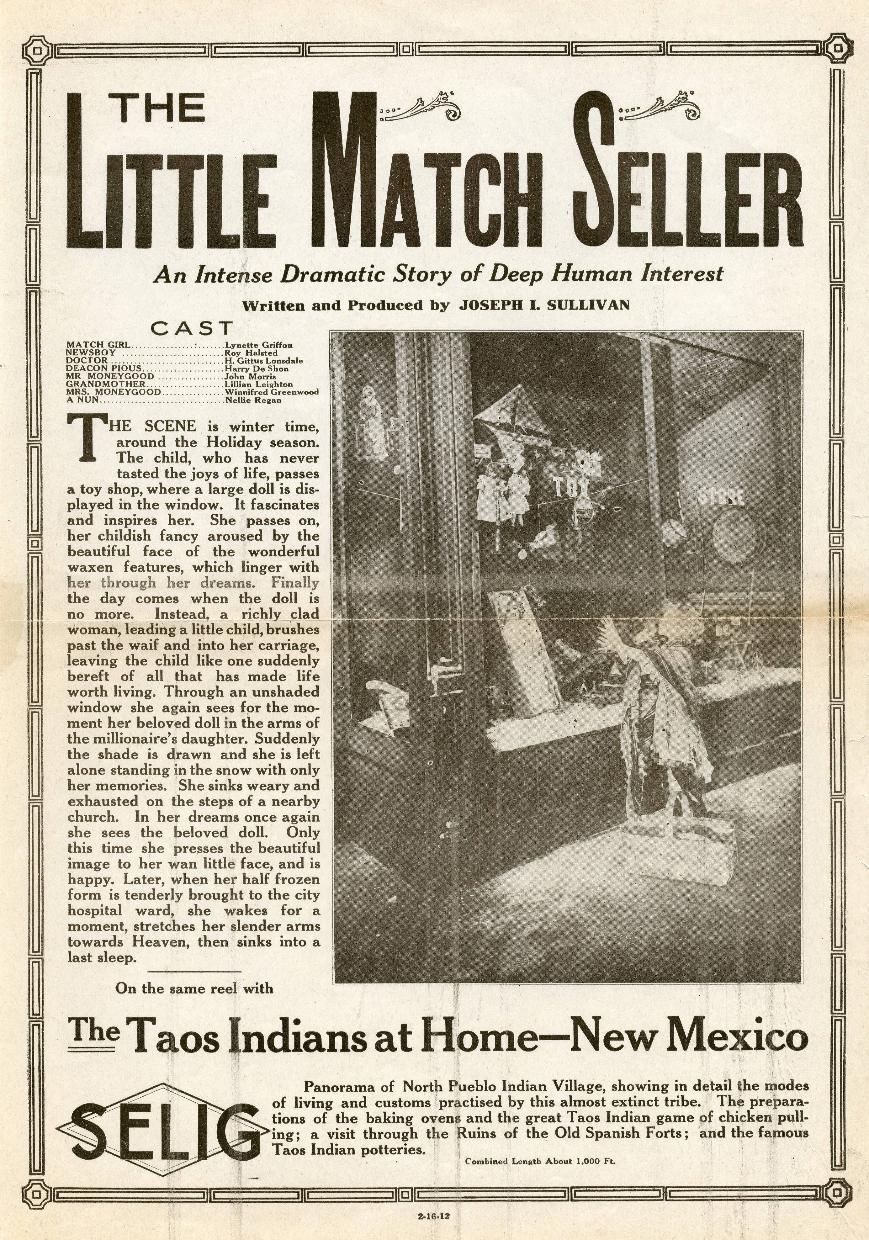 Release flier for THE LITTLE MATCH SELLER, 1912